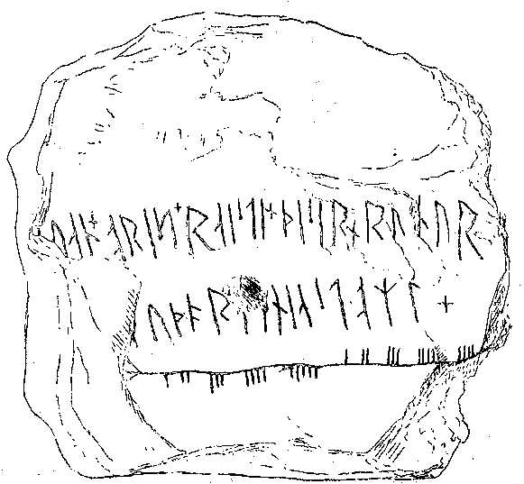 On the Maughold Stone - here a drawing from about 1910 - there is a runic inscription ("Jóan the priest carved these runes. Fuþorkhniastbml") inscribed in short twig runes (Swedish-Norwegian rune variant). Below this inscription are carved the first ten Ogham letters. Exact descriptions of the Maughold Stone